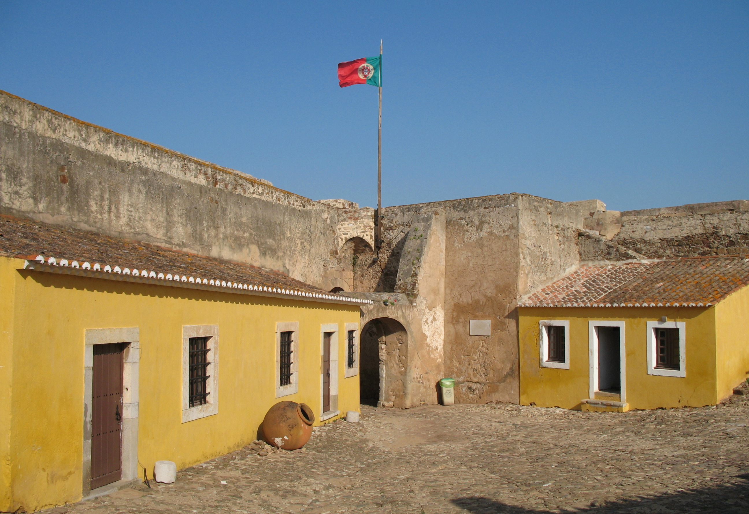 Castro Marim (Algarve, Portugal): inside the old castle